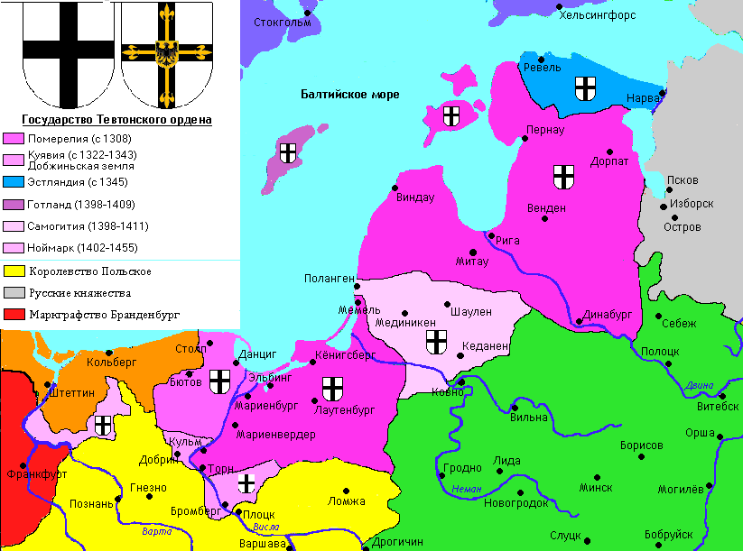 Russian version for = history map of Ordensstaat, 1455